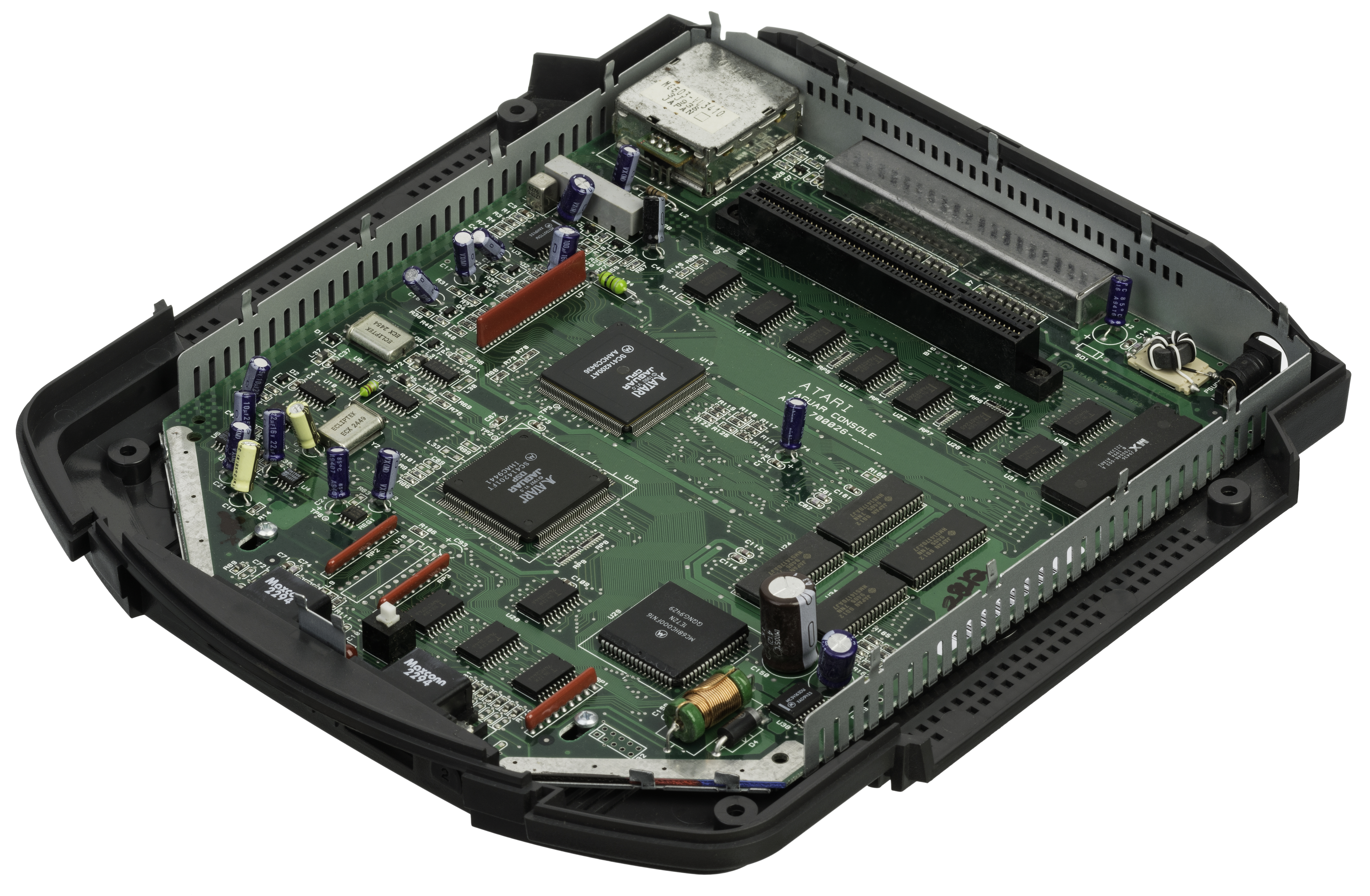 The motherboard for an Atari Jaguar, Atari Corp's last video game console. Originally released in 1993, the Jaguar utilizes a multi-chip architecture using two custom chips and a Motorola 68000. The two custom chips, the Tom & Jerry chips, handle most of the graphics and audio of the system, with the 68000 acting as a "manager." This is a REV P / R motherboard, the major chips are labeled: JAGUAR CPU V 1.0 MOTOROLA SC414200AT AAHCC9436 JAGUAR DSP V 1.0 MOTOROLA SC414201FT IHAC9441 MOTOROLA MC68HC000FN16 1E72N QQNG9429